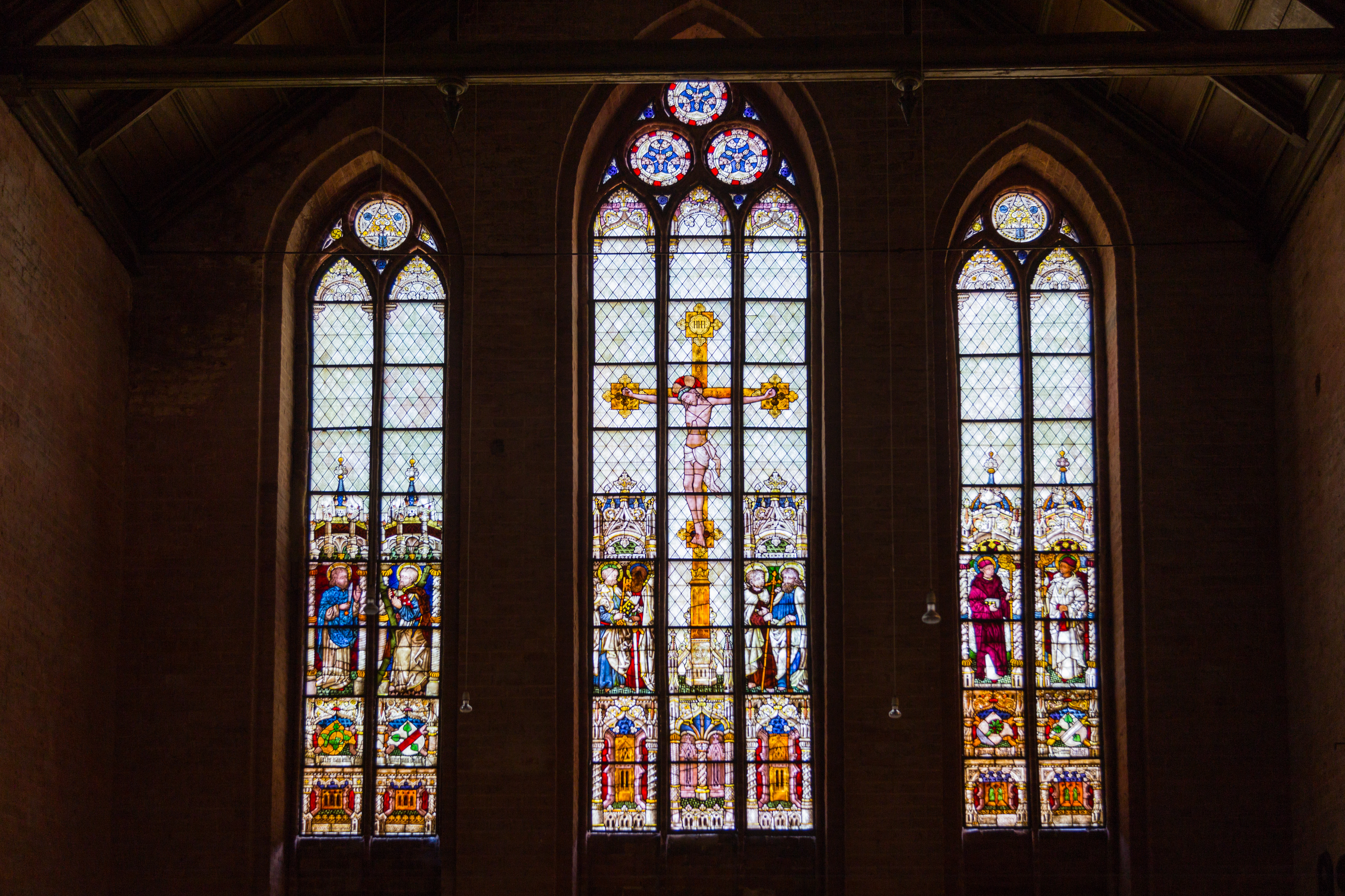 Stained glass windows of the Protestant Abbey Church (Klosterkirche) in Kloster Neuendorf, district of Gardelegen, Altmarkkreis Salzwedel, Saxony-Anhalt, Germany. It is the church of the former Cistercian monastery Neuendorf (Kloster Neuendorf) and a listed cultural heritage monument.